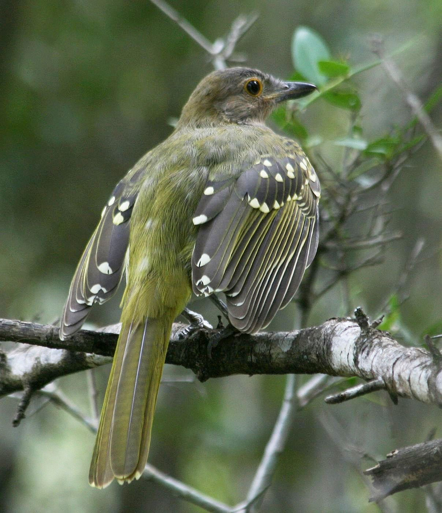 A juvenile in begging pose. Mkhuze Game Reserve, KwaZulu-Natal, South Africa. More info on this species at See more of my pics at